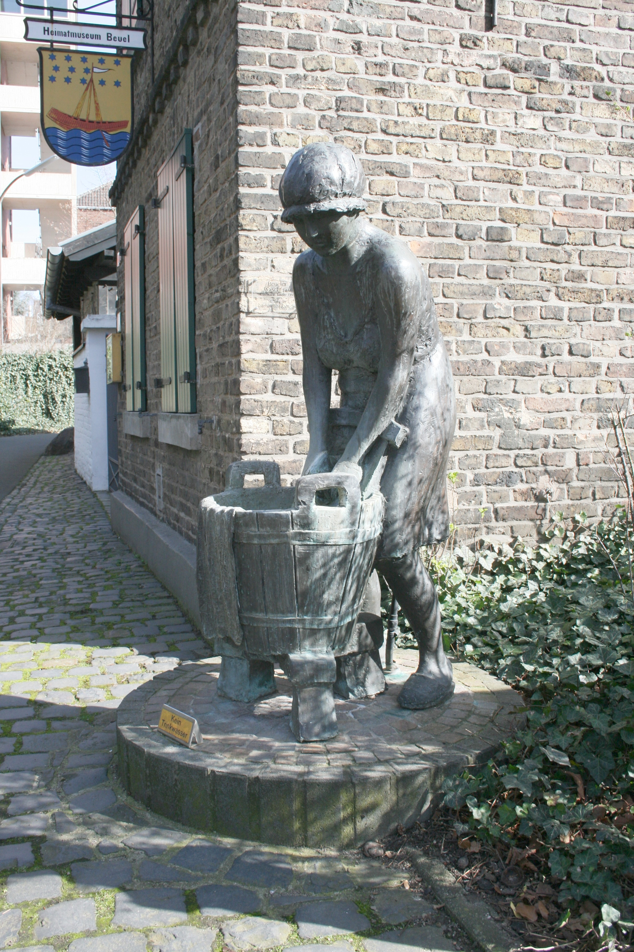 Bonn-Beuel: Fountain statue "Beueler Waschfrau"/Beueler cleaning woman by Ernemann Sander in front of the Bonn-Beuel museum; foundation of Volksbank Bonn Rhein-Sieg